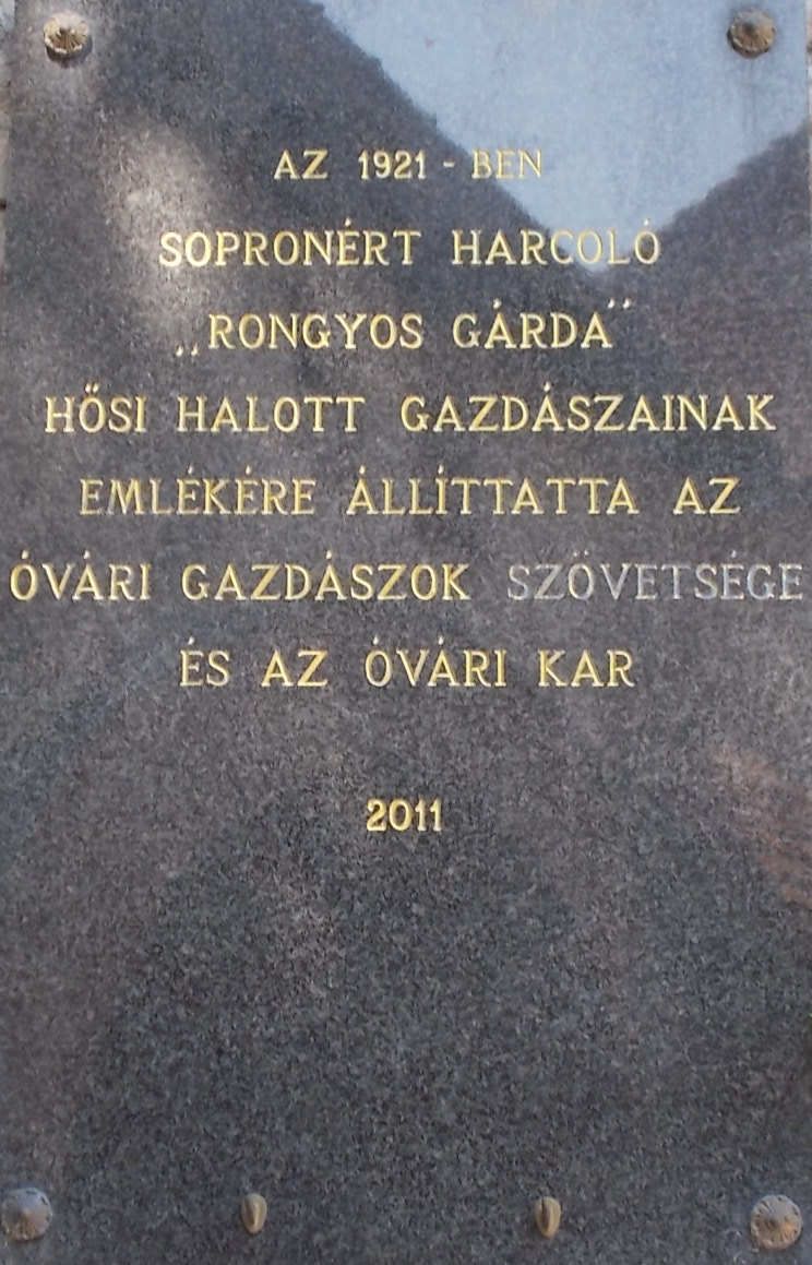 'Rongyos gárda' (cca. 'Clumsy Guard', they were soldiers and fought for , Sopron in 1921) plaque next to the plaque to the WWII victims of the University on the wall at the west gate tower on the campus of Faculty of Agricultural and Food Science of Széchenyi István University in Magyaróvár neighborhood, Mosonmagyaróvár, Győr-Moson-Sopron County, Hungary.